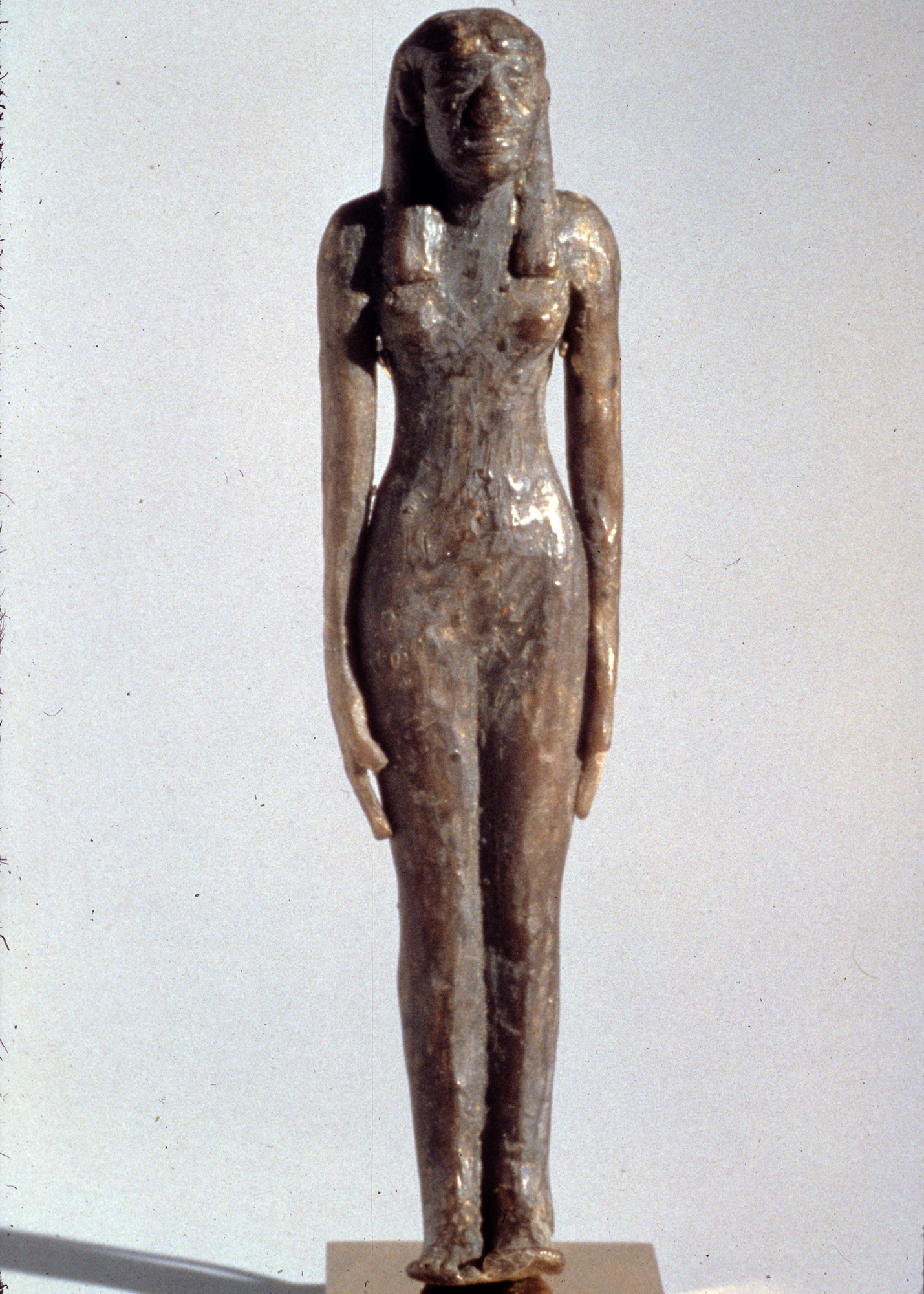 Wax funerary figurine (proto-ushabti) of queen Neferu, consort of pharaoh Mentuhotep II of the 11th Dynasty, from her Theban tomb at Deir el-Bahari (TT319). Metropolitan Museum of Art, acc. no. 25.3.244a.